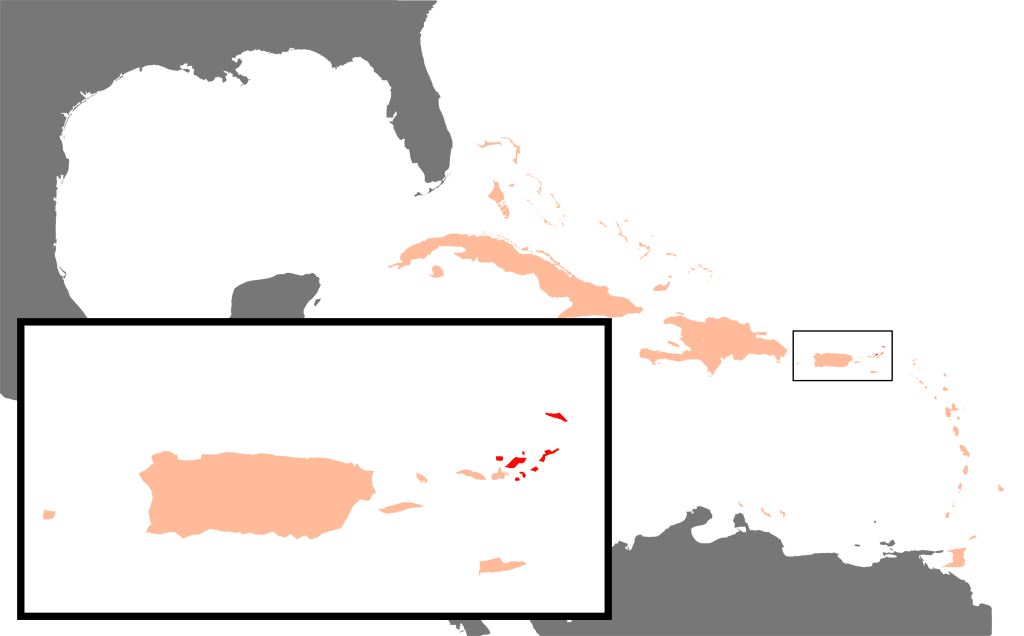 Position of British Virgin Islands in the Caribbean